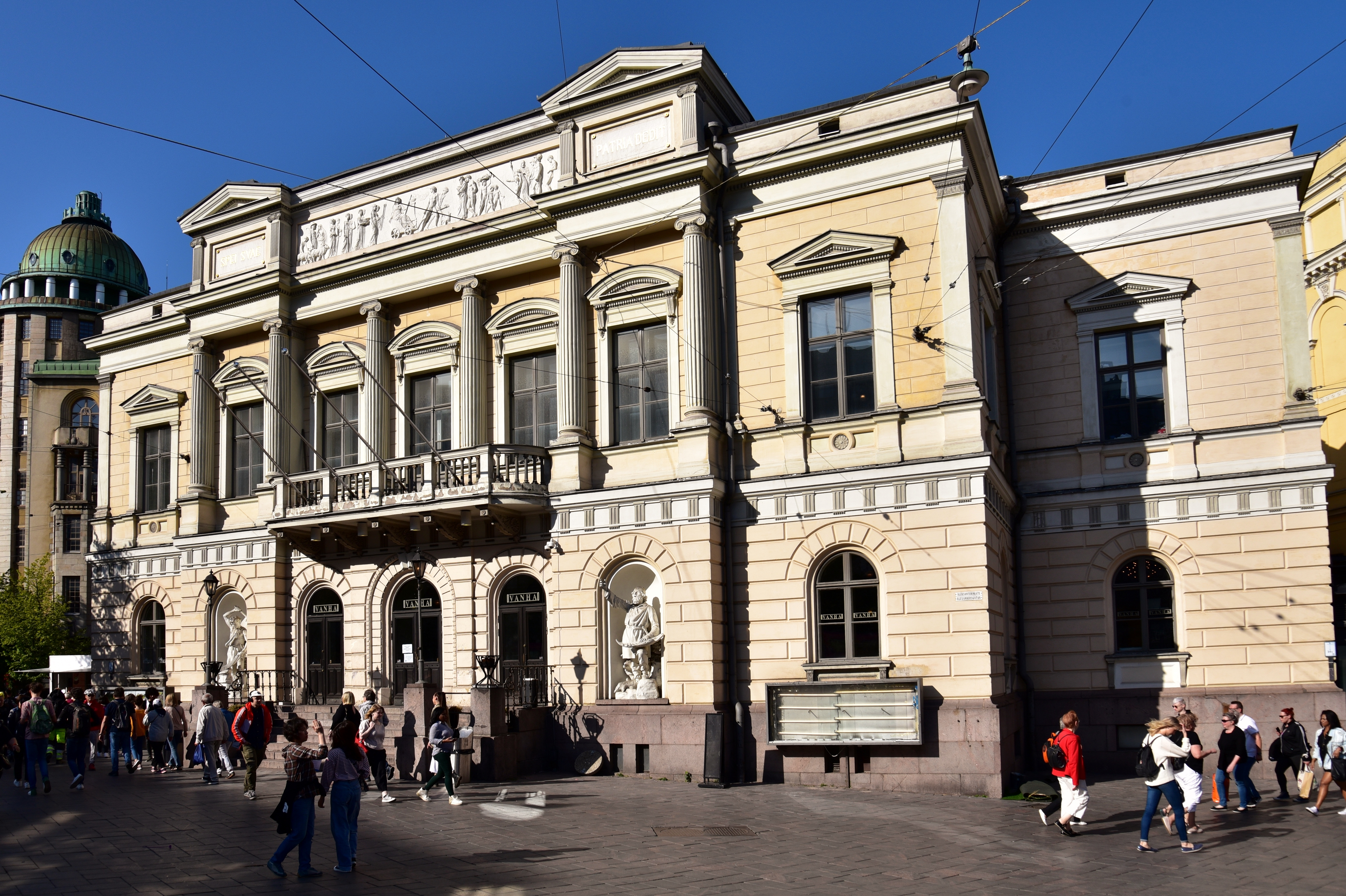 View of the Old Student House, Helsinki